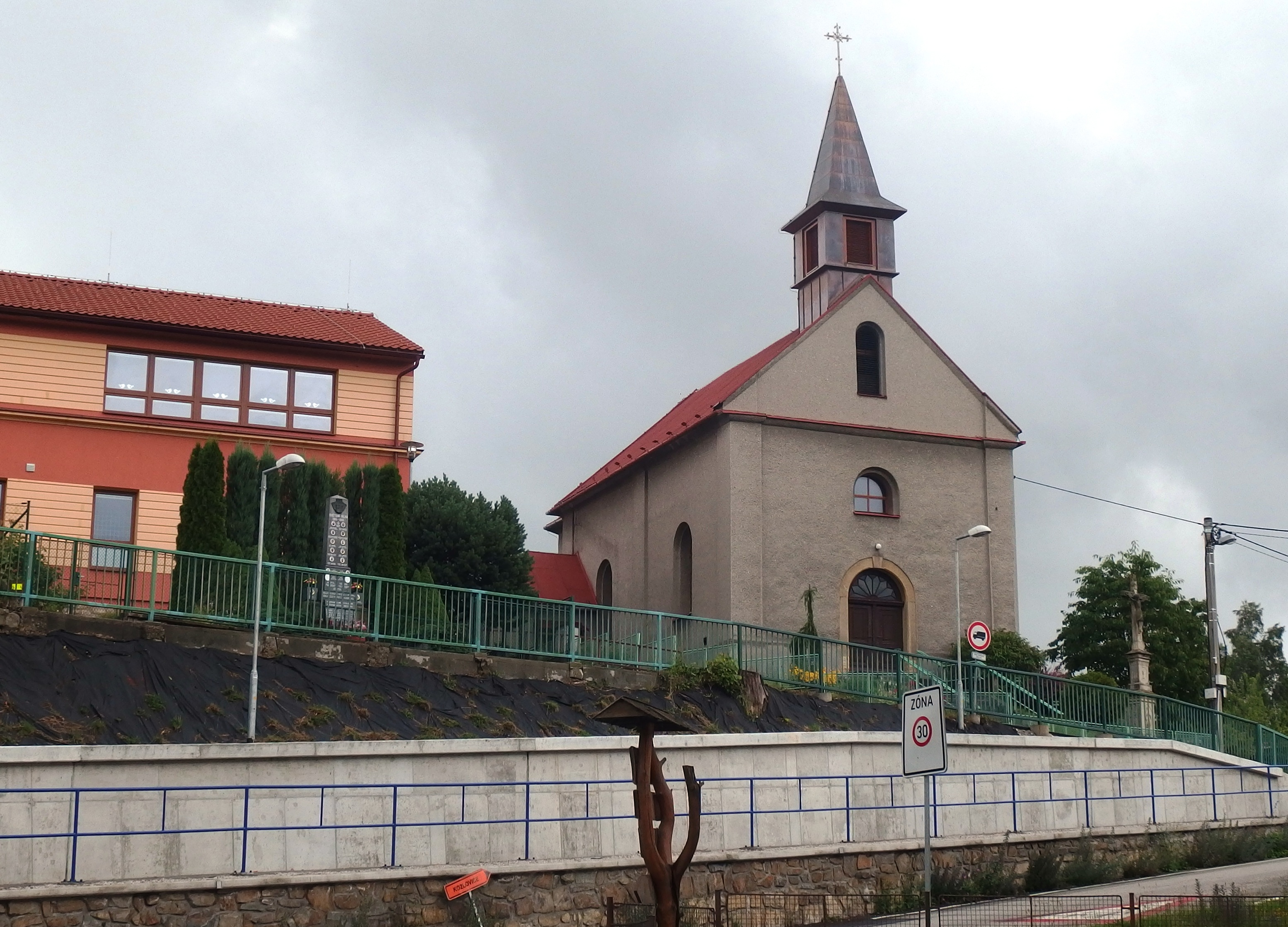 Kopřivnice, Nový Jičín District, Czech Republic, part Mniší.